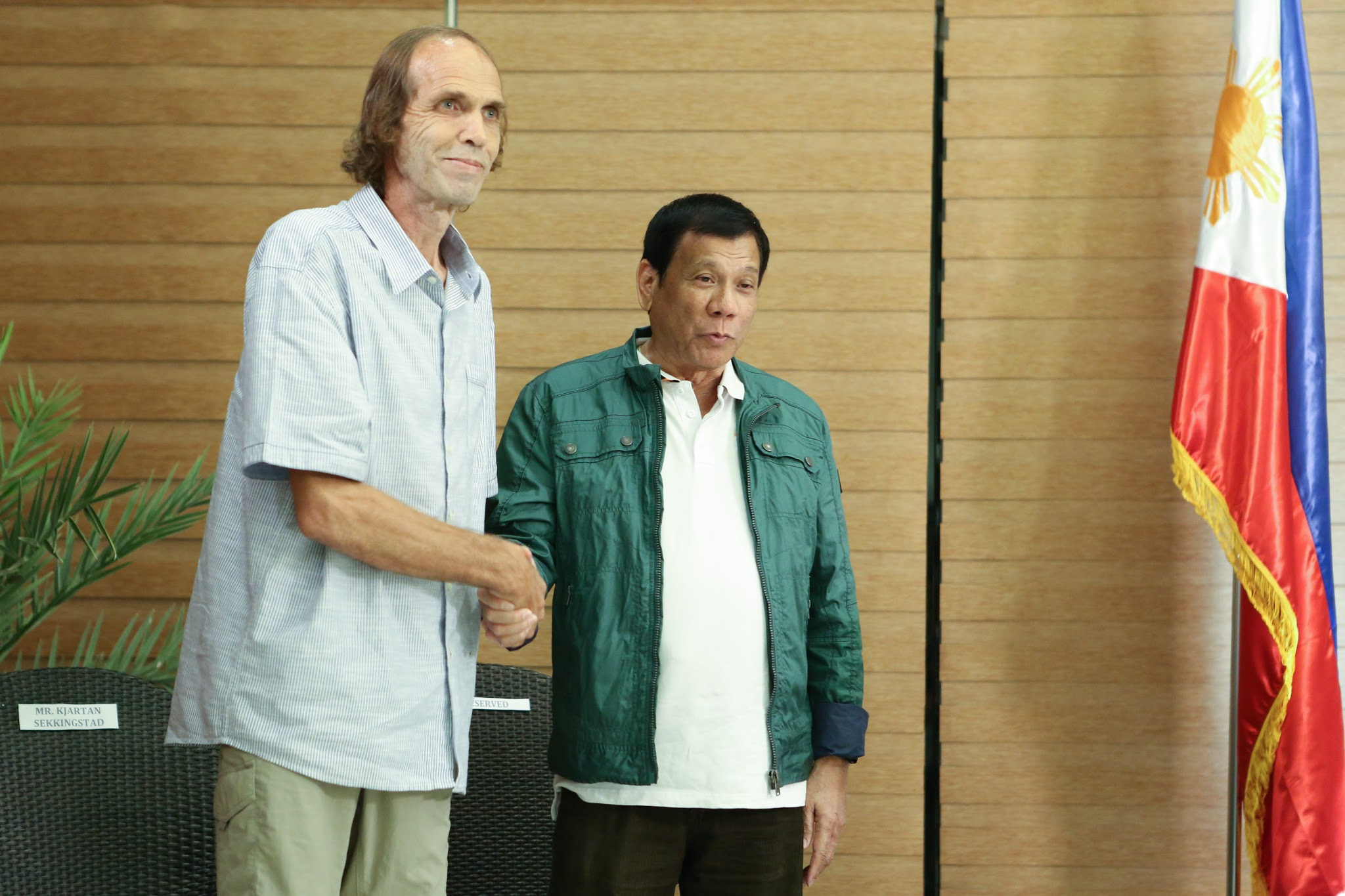 President Rodrigo Duterte welcomes Norwegian Kjartan Sekkingstad following his release from Abu Sayyaf captivity, during a press conference in Matina Enclaves, Davao City on September 18.